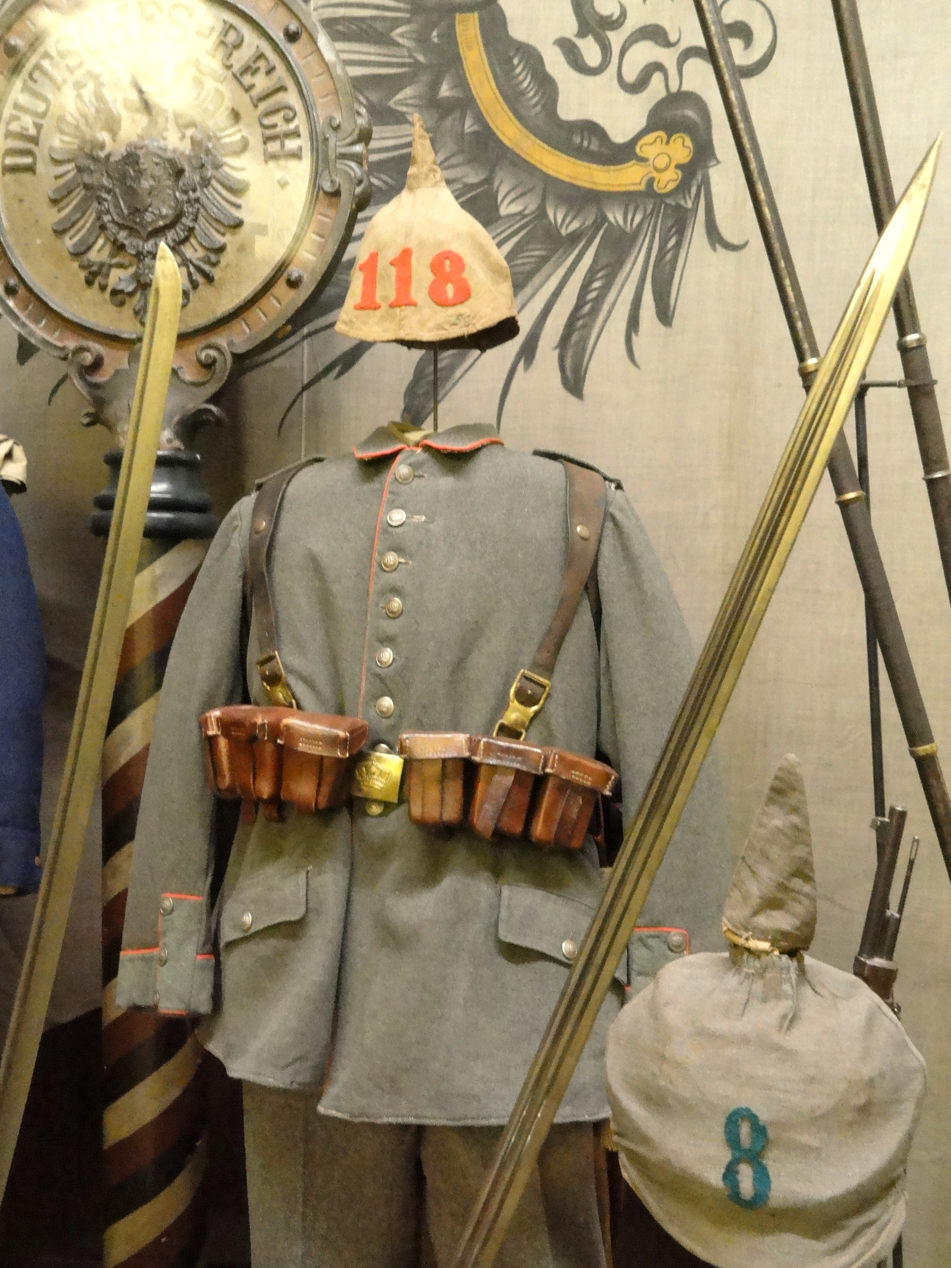 Uniform exhibited in the National World War I Museum at the Liberty Memorial, 100 W. 26th Street, Kansas City, Missouri, USA.